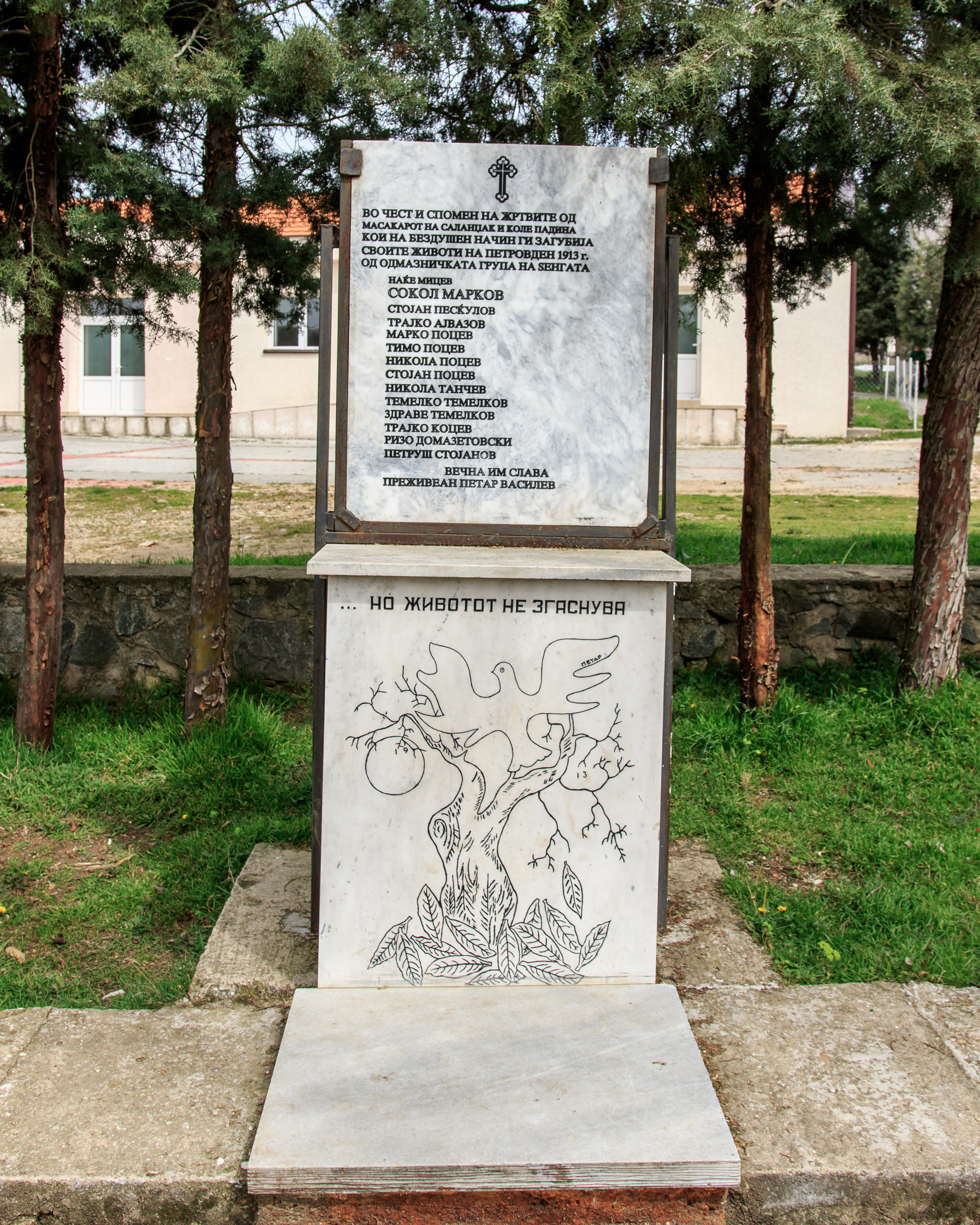 Monument in the village Dolni Lipoviḱ